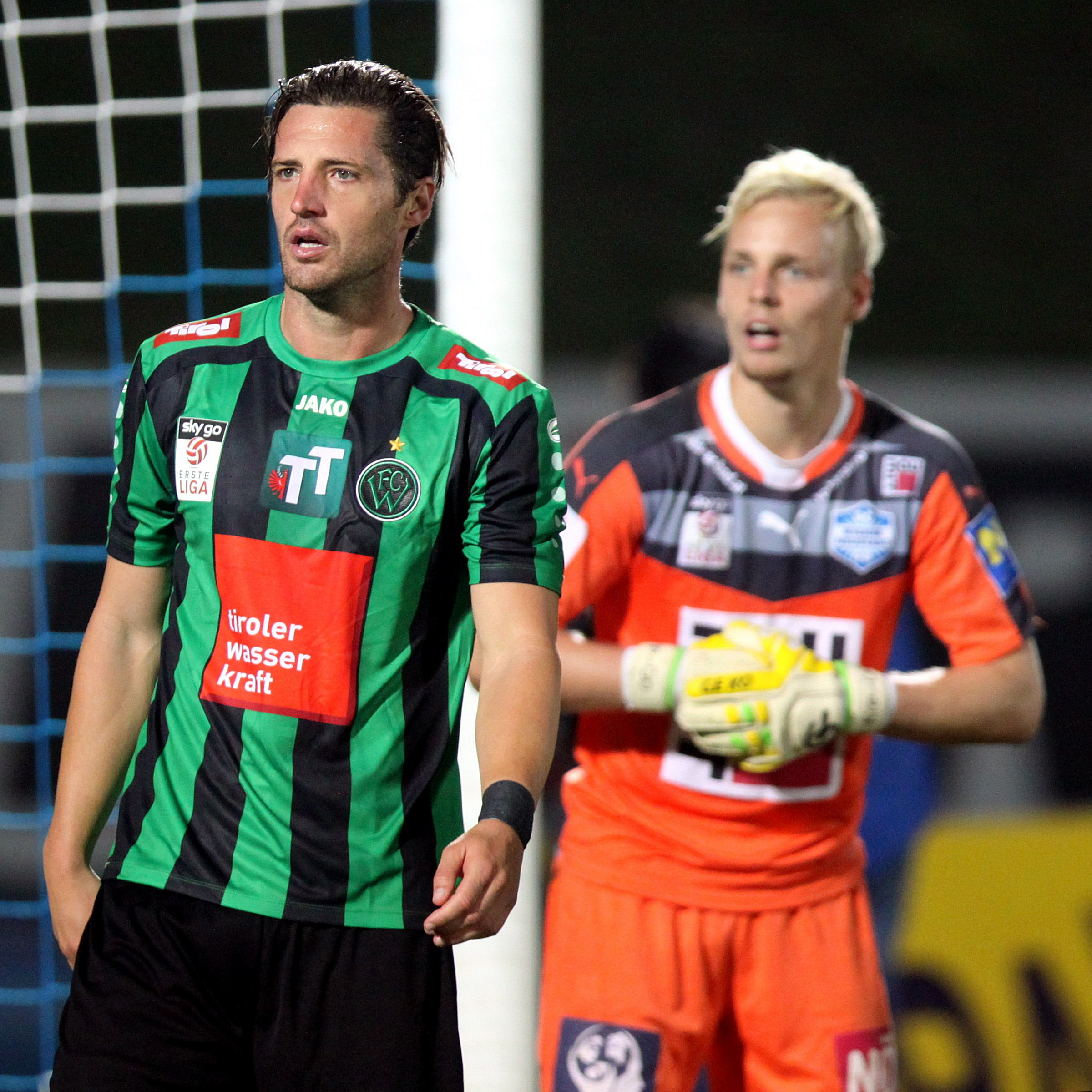 Match of the Erste Liga – SC Wiener Neustadt (blue/white shirts) vs. FC Wacker Innsbruck (green/black shirts) 1–2 (0–1) on 2015-09-15 in the Stadion in Wiener Neustadt – The photo shows Thomas Pichlmann (FC Wacker Innsbruck, left) and goalkeeper Domenik Schierl (SC Wiener Neustadt, right).